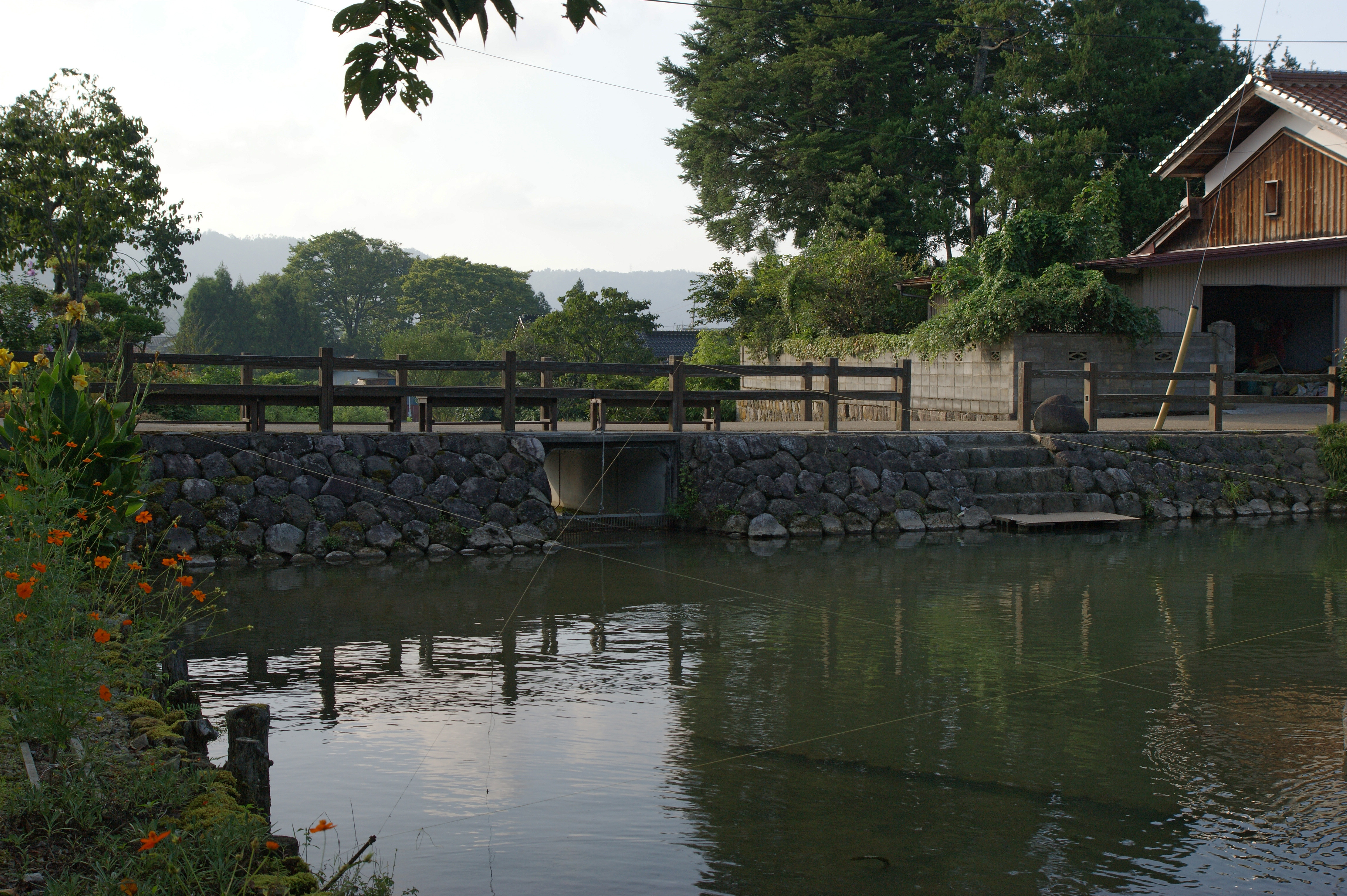 Shikano, Tottori, Tottori prefecture, Japan